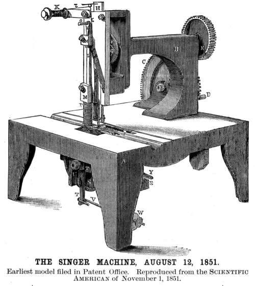 Wood engraving image of the Singer Sewing Machine of 1851.